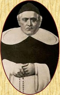 Saint Francis Coll's old photograph